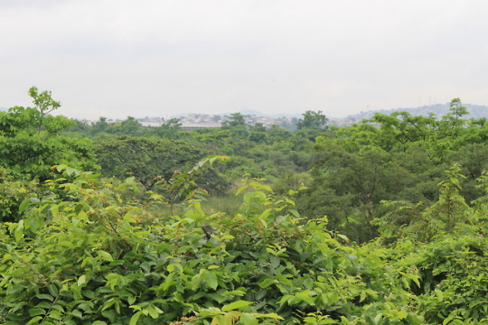 View from a tower in the Forest Reserve of Samanes Park in Guayaquil, Ecuador, Iguana in the foreground